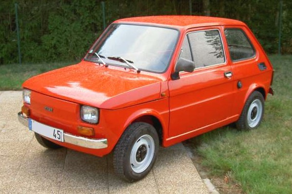 Fiat 126